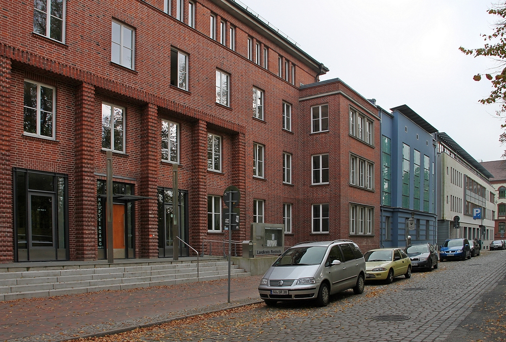 Güstrow: district administration building of the district Rostock (Landkreis Rostock).